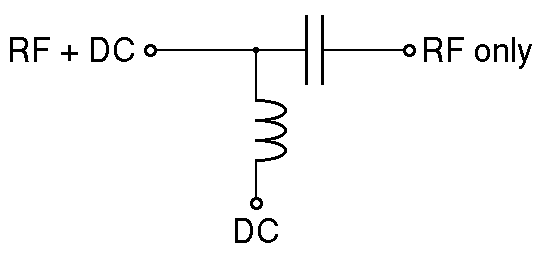 Equivalent circuit of a bias t.